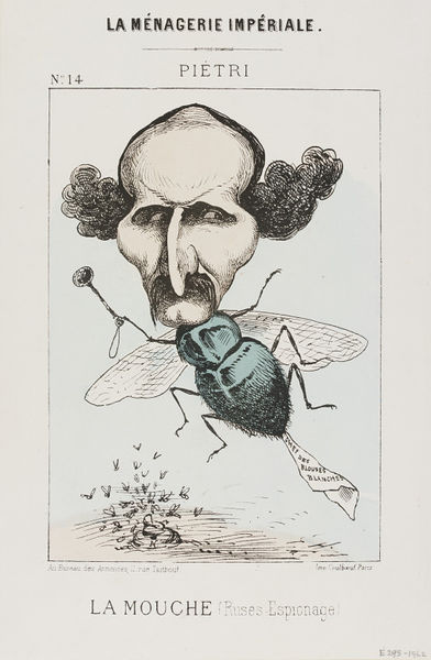 Satirical print from La Ménagerie Impériale showing Emile Joseph-Marie Piétri as a fly.